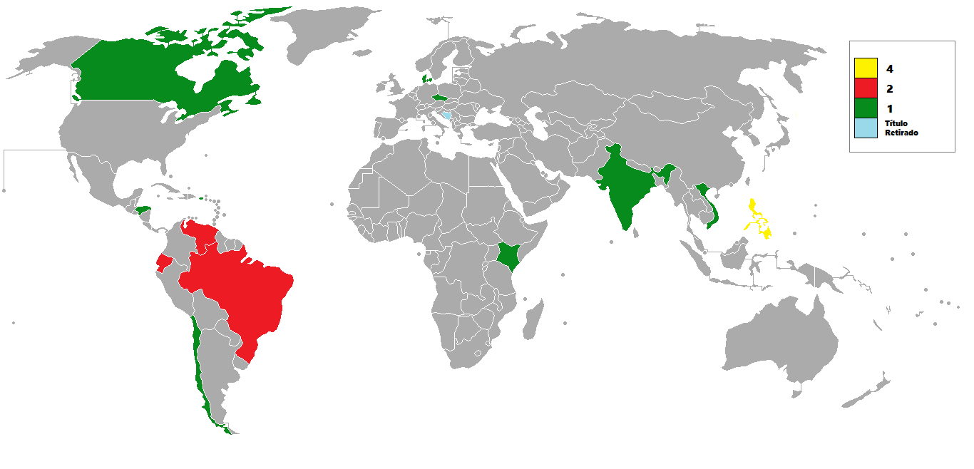 Miss Earth winners.